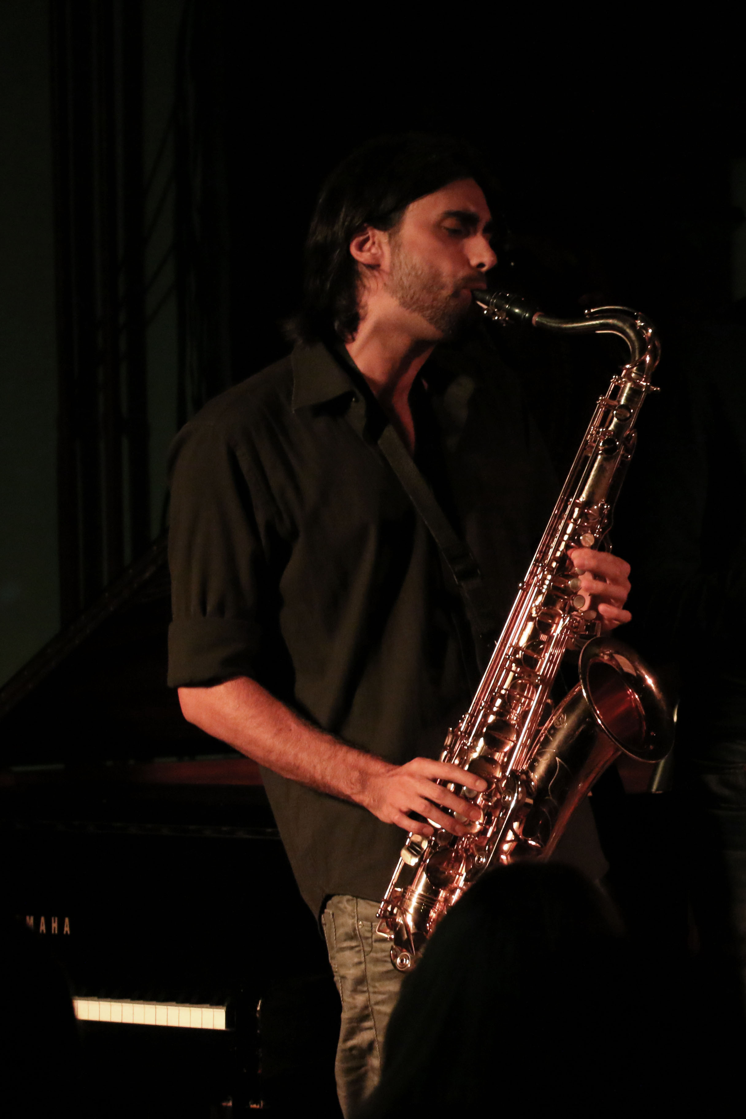 Milo Lombardi playing tenor saxophone in B-flat, a jazz club in Berlin, Germany.